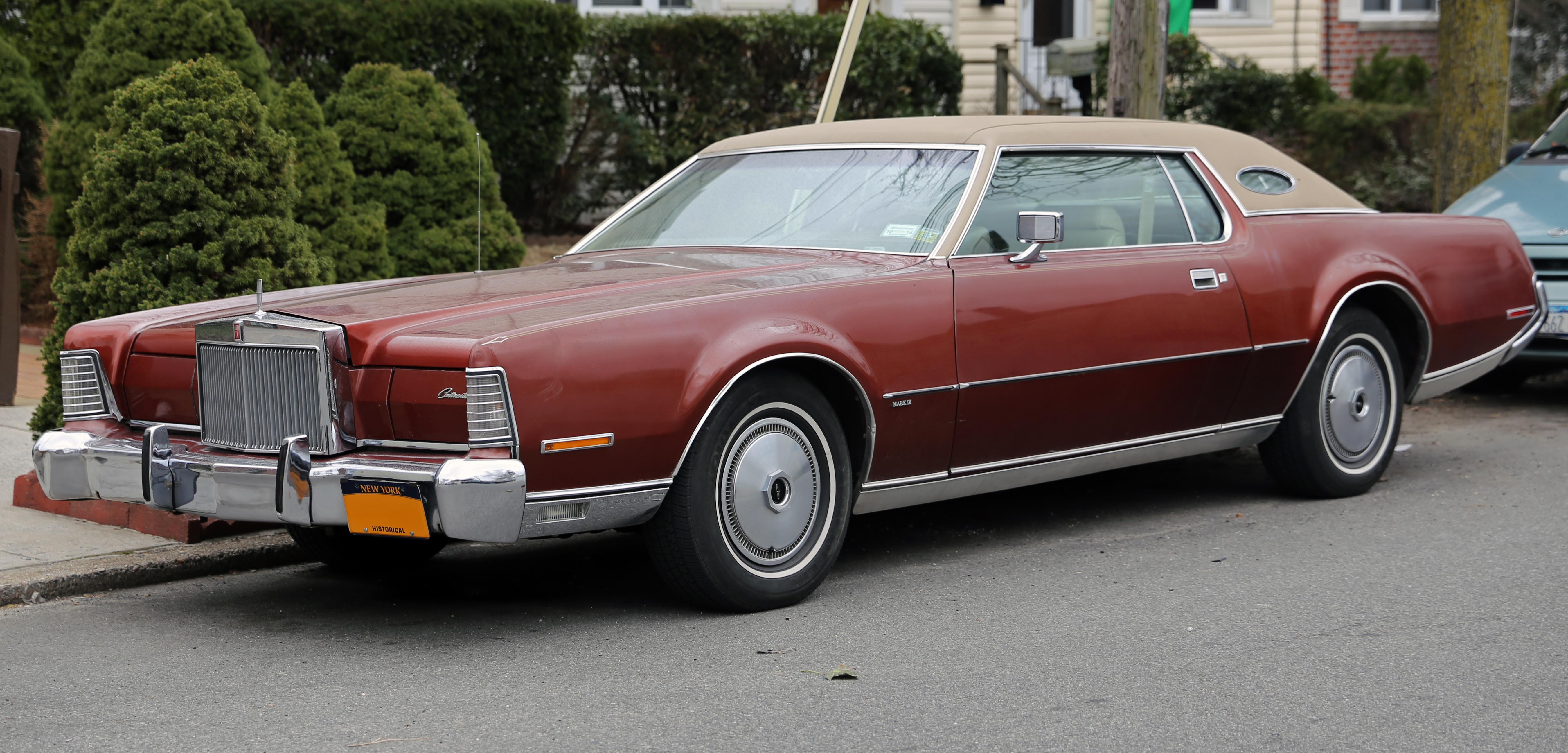 A 1973 Lincoln Continental Mark IV. 460 4-barrel V8, built in Wixom, MI.